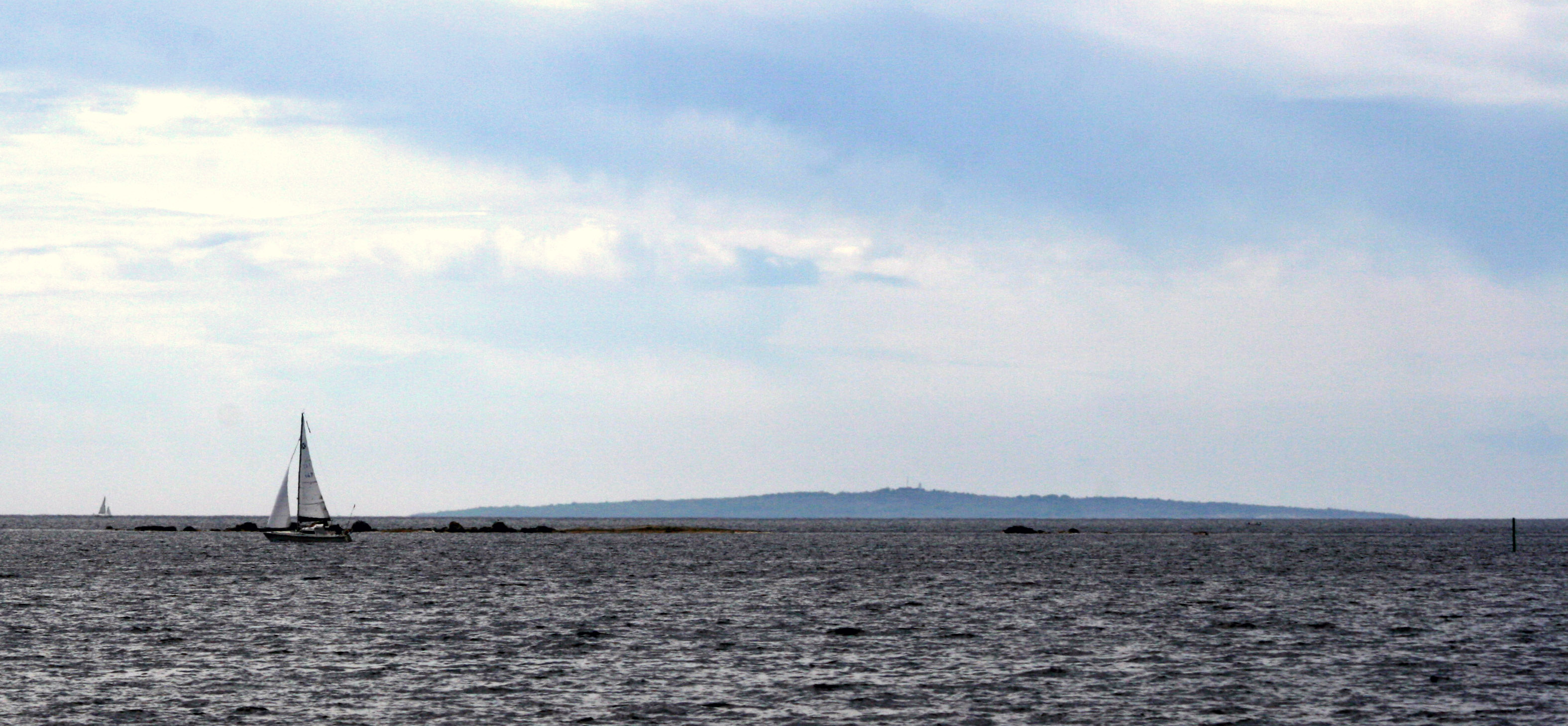 Hanö seen from the coast of Blekinge